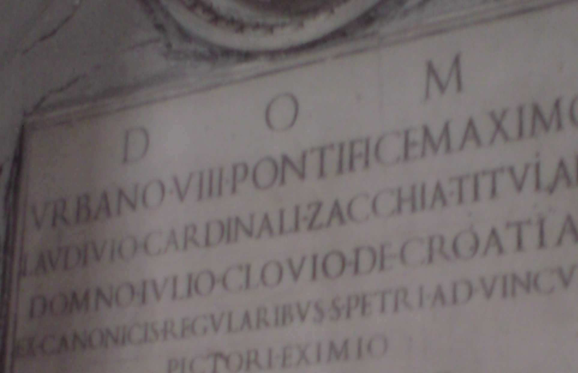 Julije Klovic, above his grave, San Pietro in Vicoli